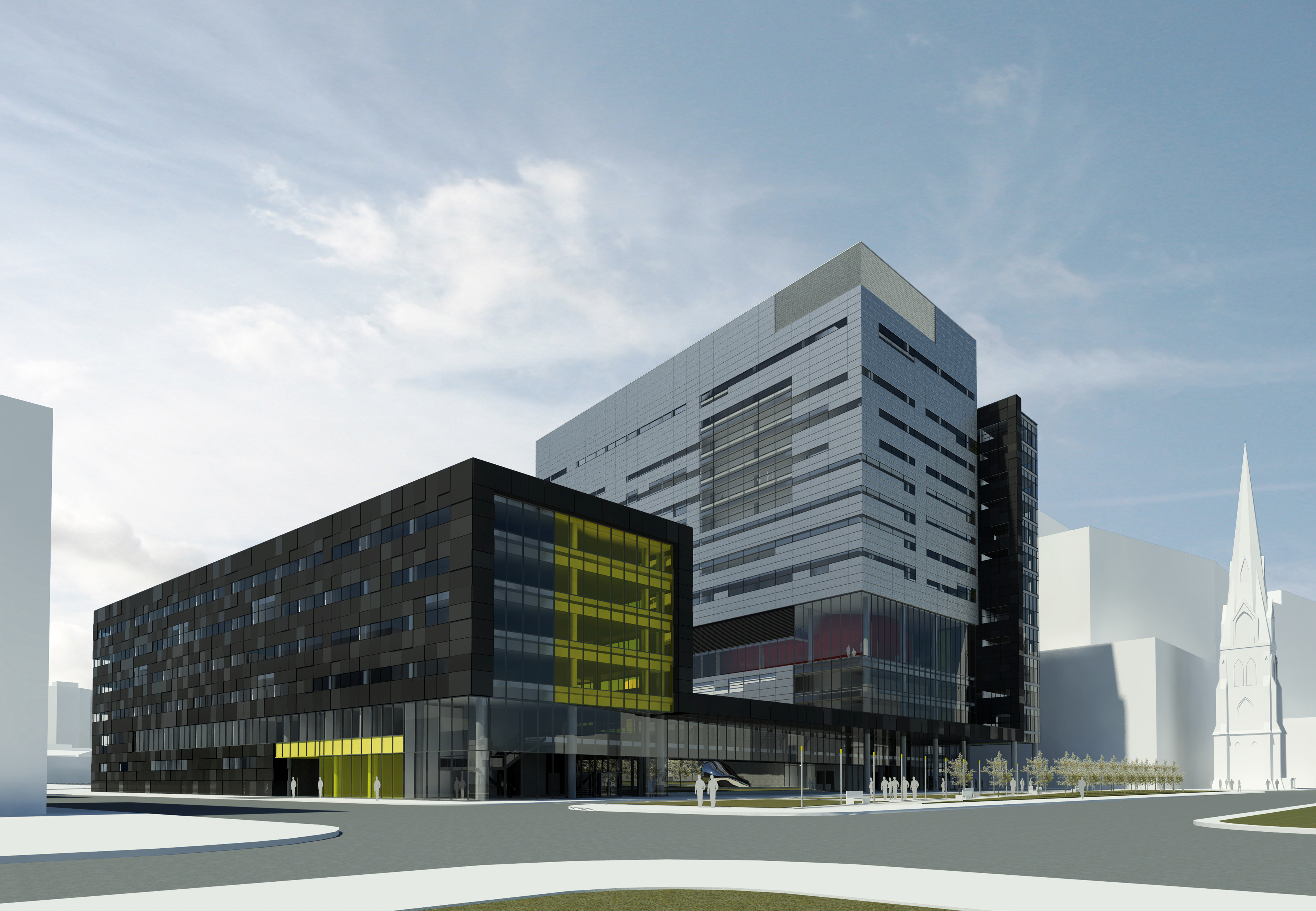 Université de Montréal Hospital Centre, Research Centre